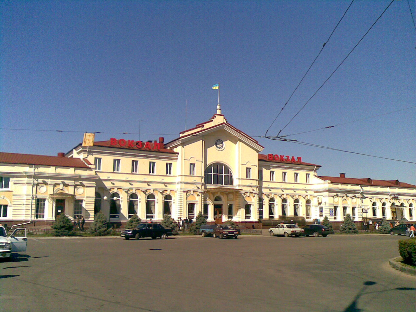 Kherson_RWS